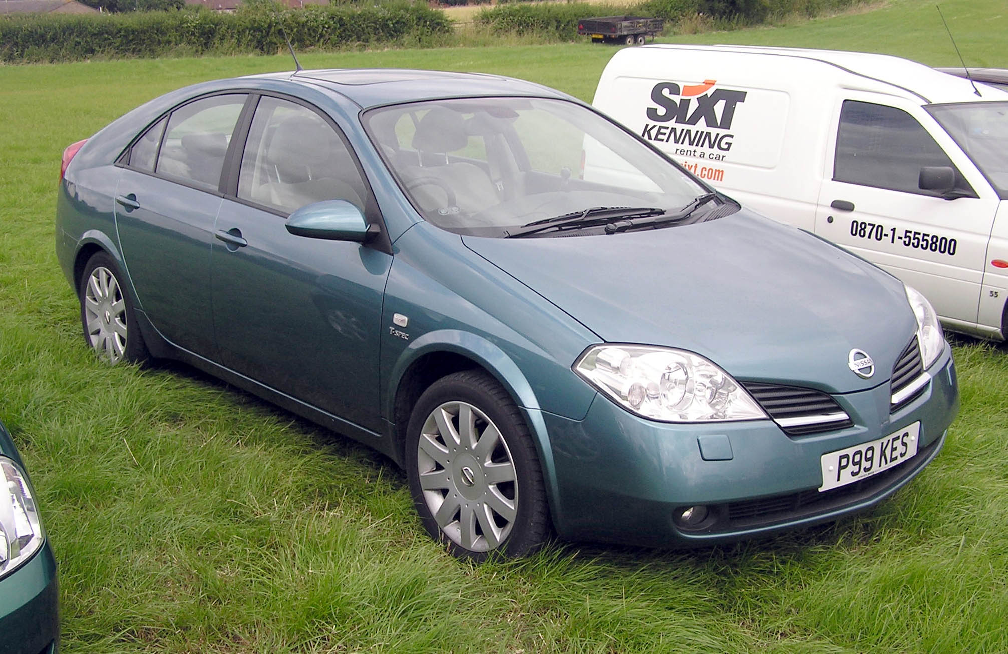 Nissan Primera DCI T-SPEC at Coalpit Heath Car Show, near Bristol, England. Taken by Adrian Pingstone in July 2004 and released to the public domain. Used on the English Wikipedia.